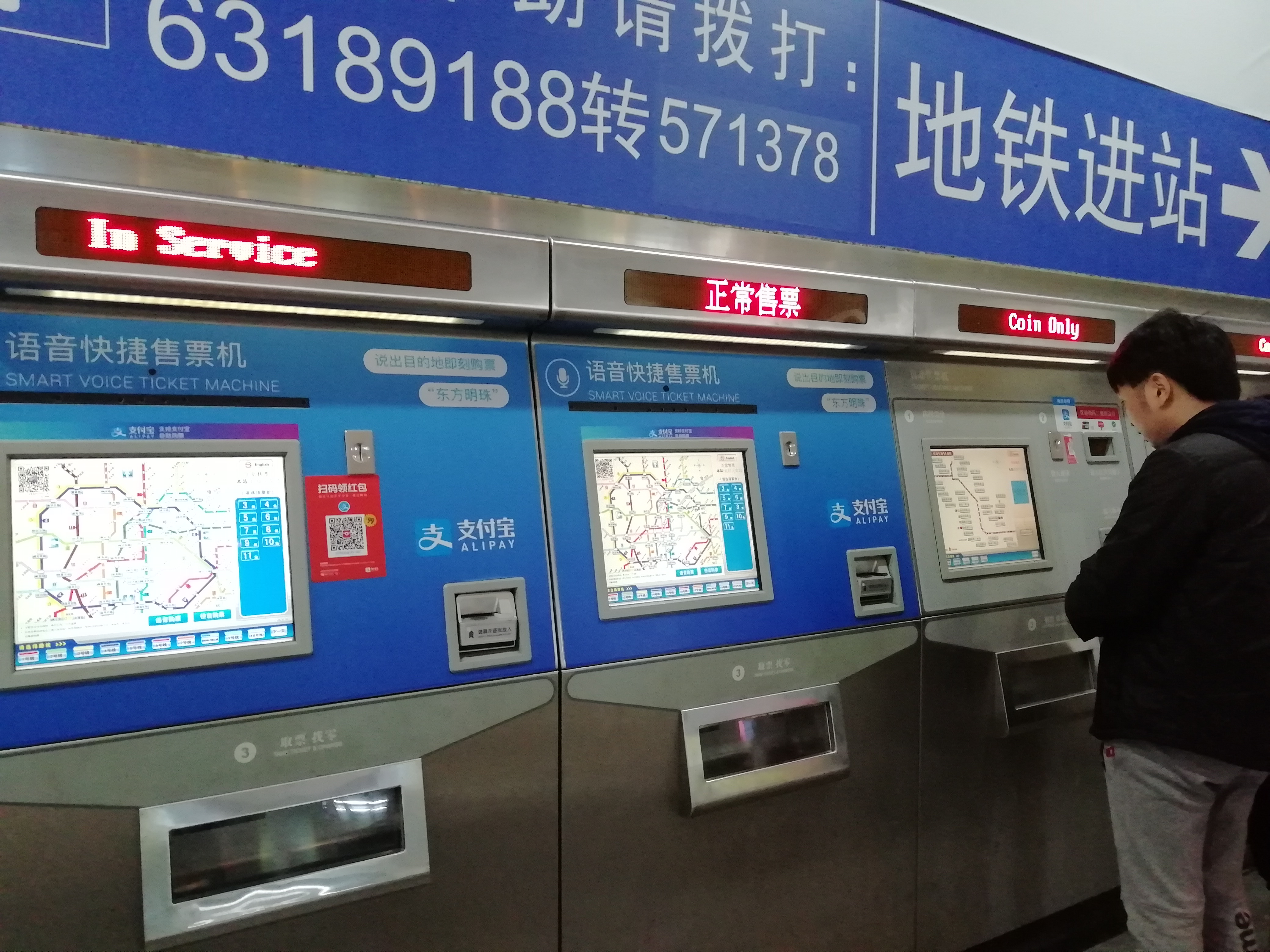 A ticket vending machine with STT techonology, located in SHQ Metro Station.